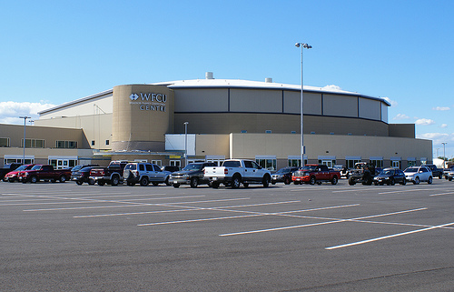 The Windsor Family Credit Union Center, in Windsor, Ontario, Canada. The WFCU Center is to be the new home of the Windsor Spitfires upon completion.